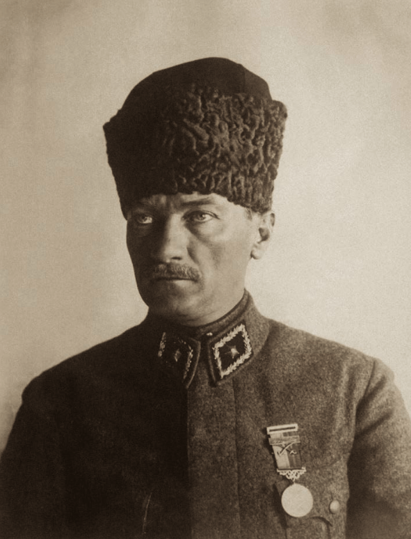 Turkish Field Marshal Gazi Mustafa Kemal Pasha (Atatürk), Balıkesir, 1923. Kemal Atatürk (or alternatively written as Kamâl Atatürk, Mustafa Kemal Pasha until 1934, commonly referred to as Mustafa Kemal Atatürk; 1881 – 10 November 1938) was a Turkish field marshal, revolutionary statesman, author, and the founding father of the Republic of Turkey, serving as its first President from 1923 until his death in 1938. He undertook sweeping progressive reforms, which modernized Turkey into a secular, industrial nation. Ideologically a secularist and nationalist, his policies and theories became known as Kemalism. Due to his military and political accomplishments, Atatürk is regarded as one of the most important political leaders of the 20th century.